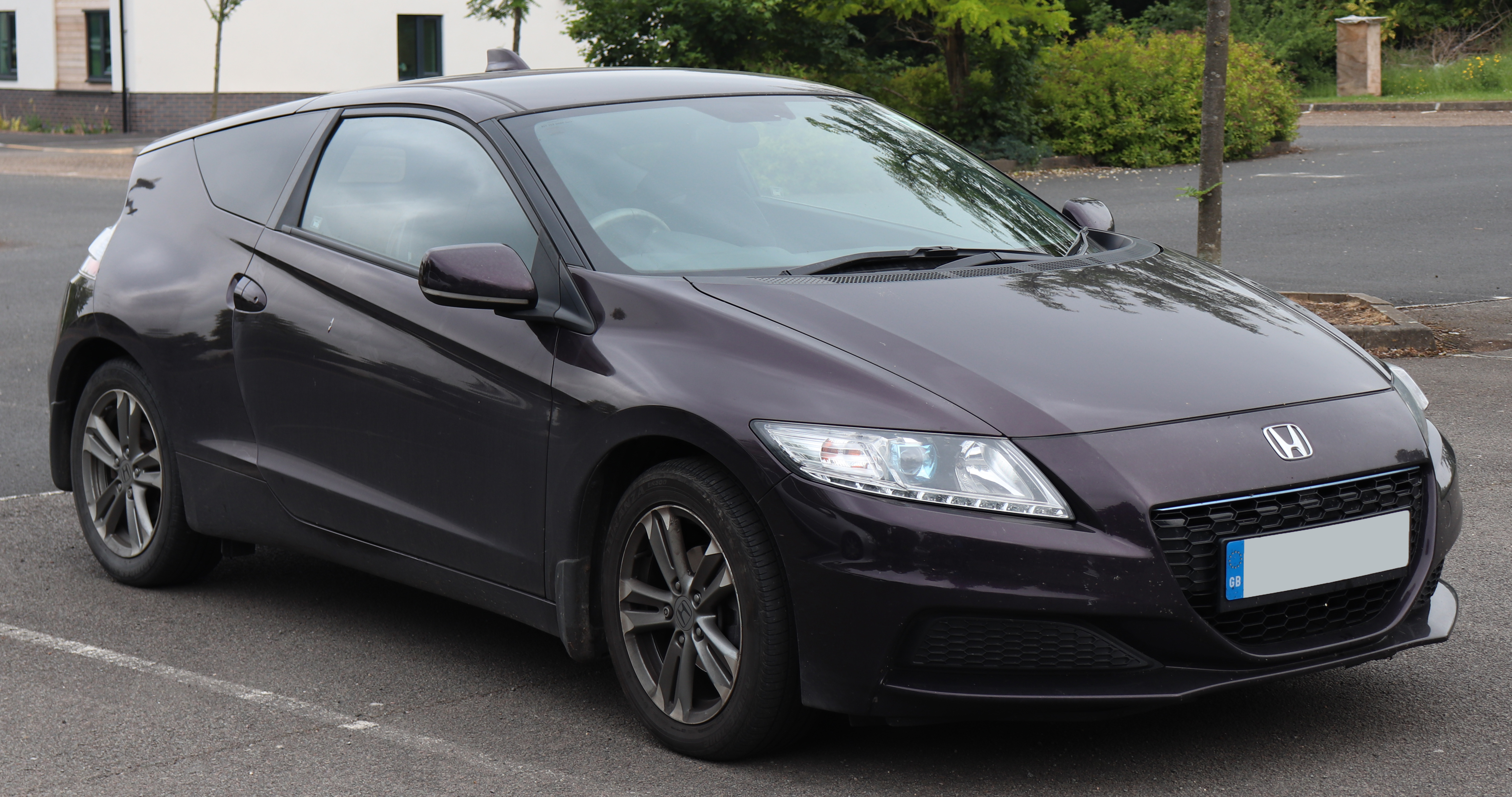 2014 Honda CR-Z Sport-T i-VTEC 1.5 Front Taken in Leamington Spa